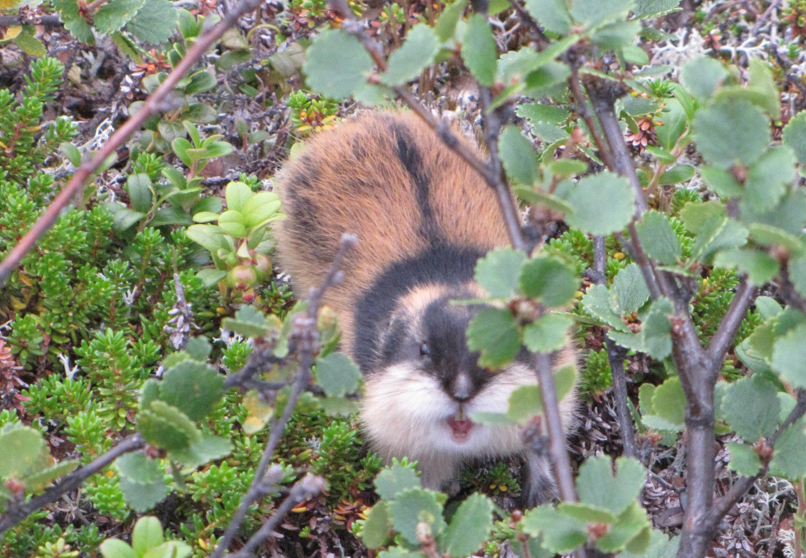 Norway lemming (Lemmus lemmus) in Kevo Strict Nature Reserve, Finland